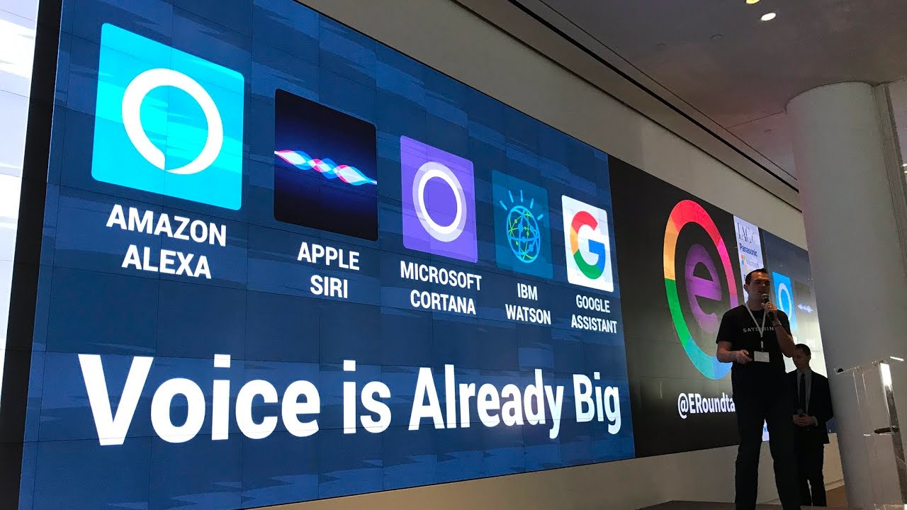 Sayspring founder Mark Christopher Webster is pitching Sayspring in his presentation at the Entrepreneurs Roundtable Accelerator's Demo Day in April 2017